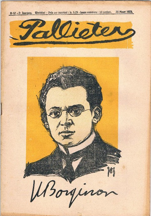 (Hendrik?) Borginon. Front page of the Flemish magazine Pallieter (1922-1928). All front pages were designed and illustrated by Jos De Swerts (1890-1939).